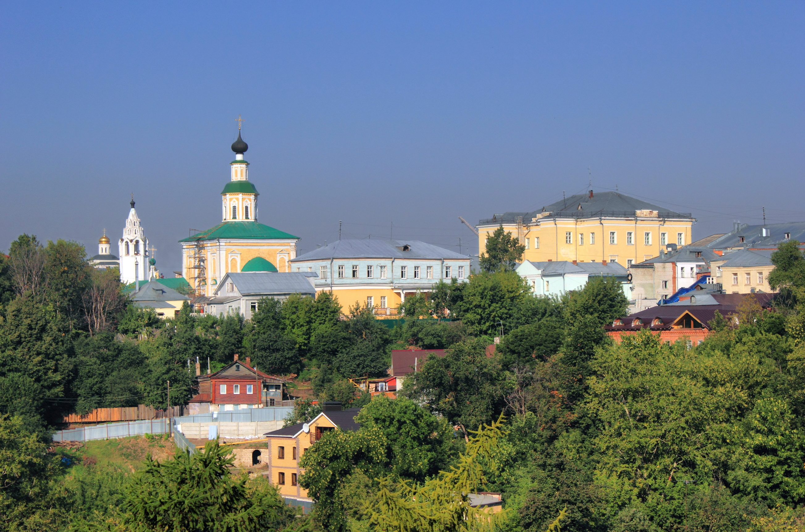 Vladimir